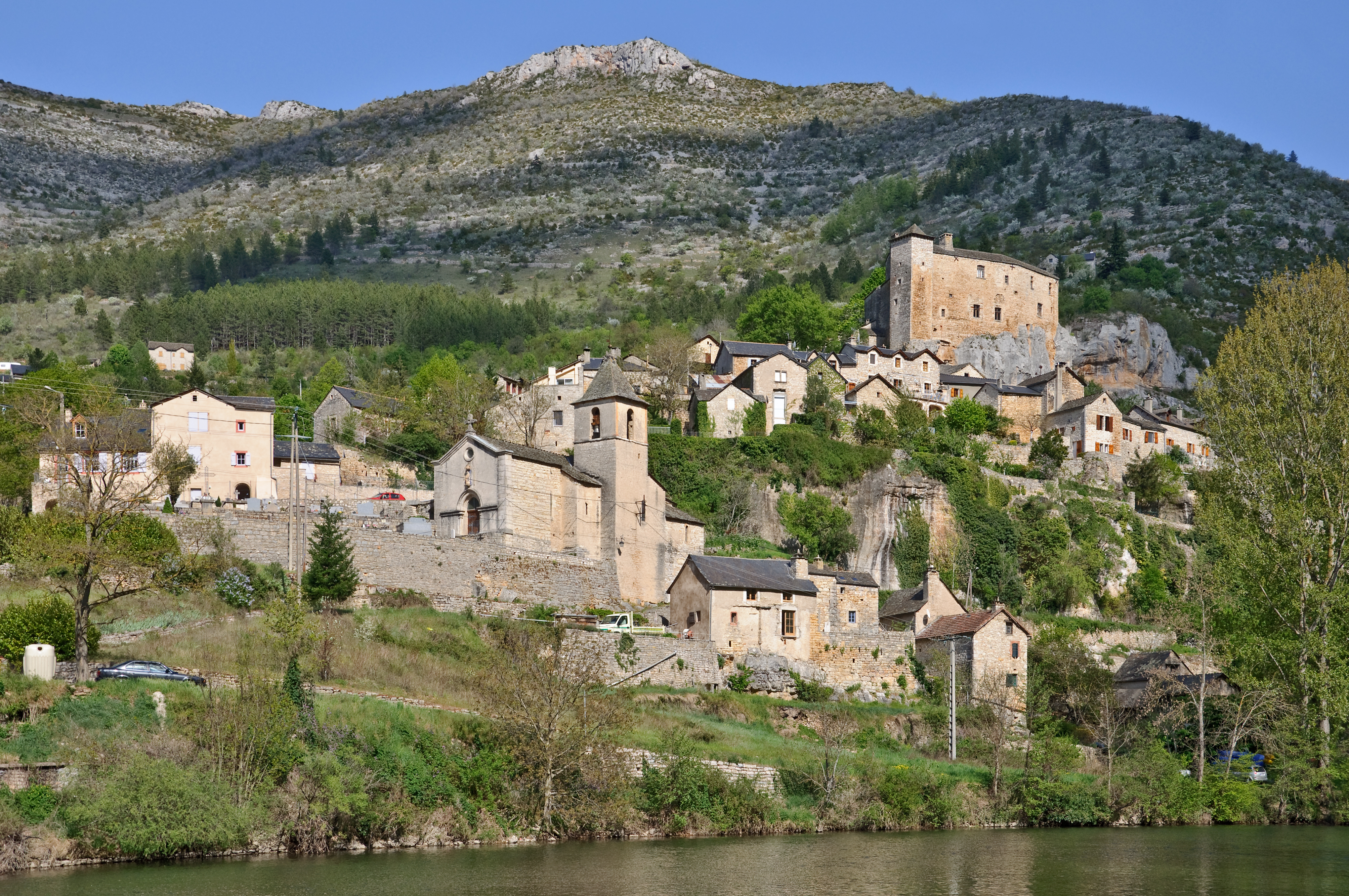 Prades and its castle, in the commune of Sainte-Enimie, Lozère, France.